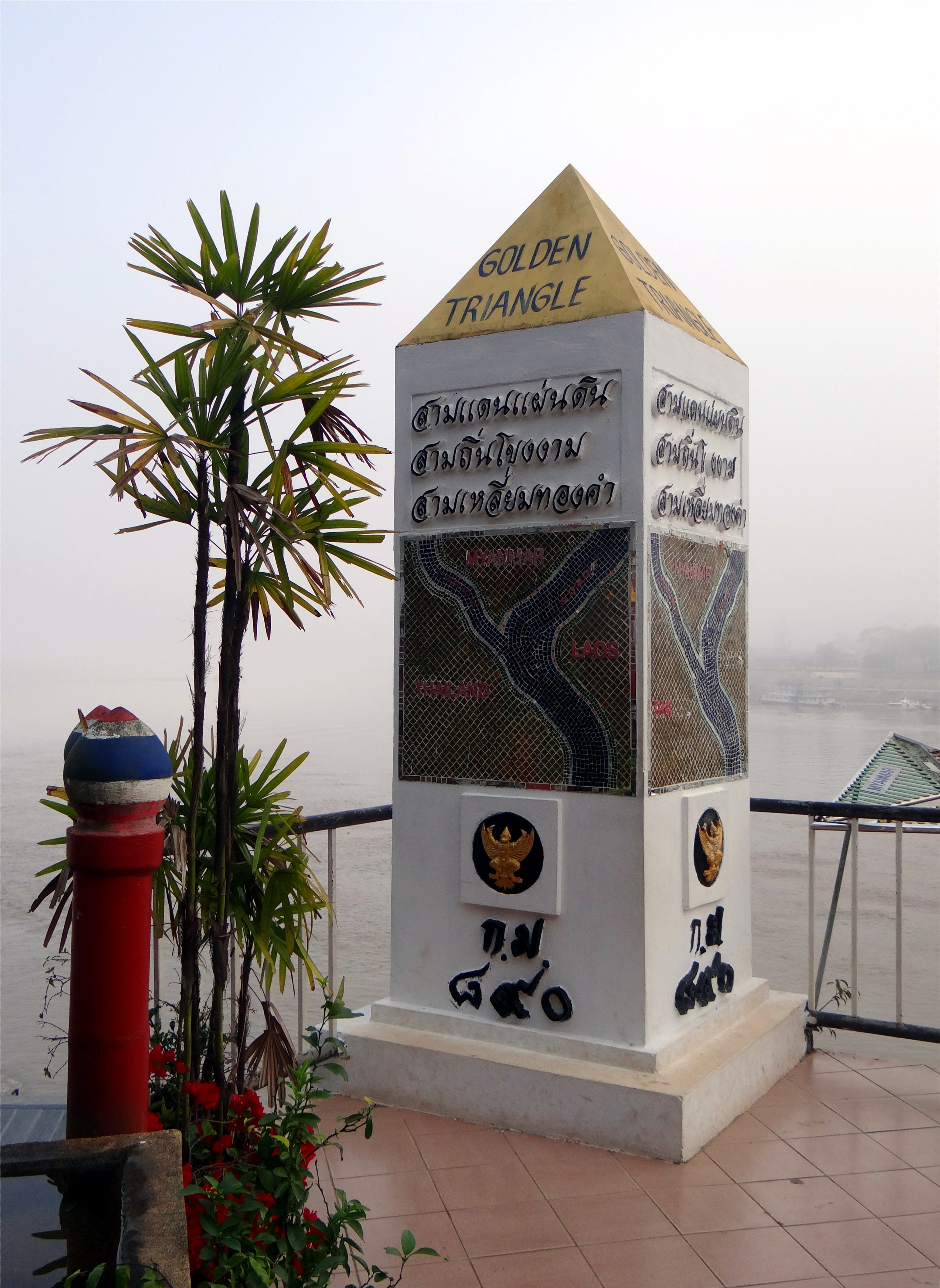 Terminal of the Golden Triangle, Sop Ruak, Thailand.